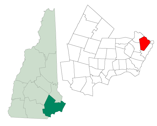 Map of a municipality in Rockingham County, New Hampshire